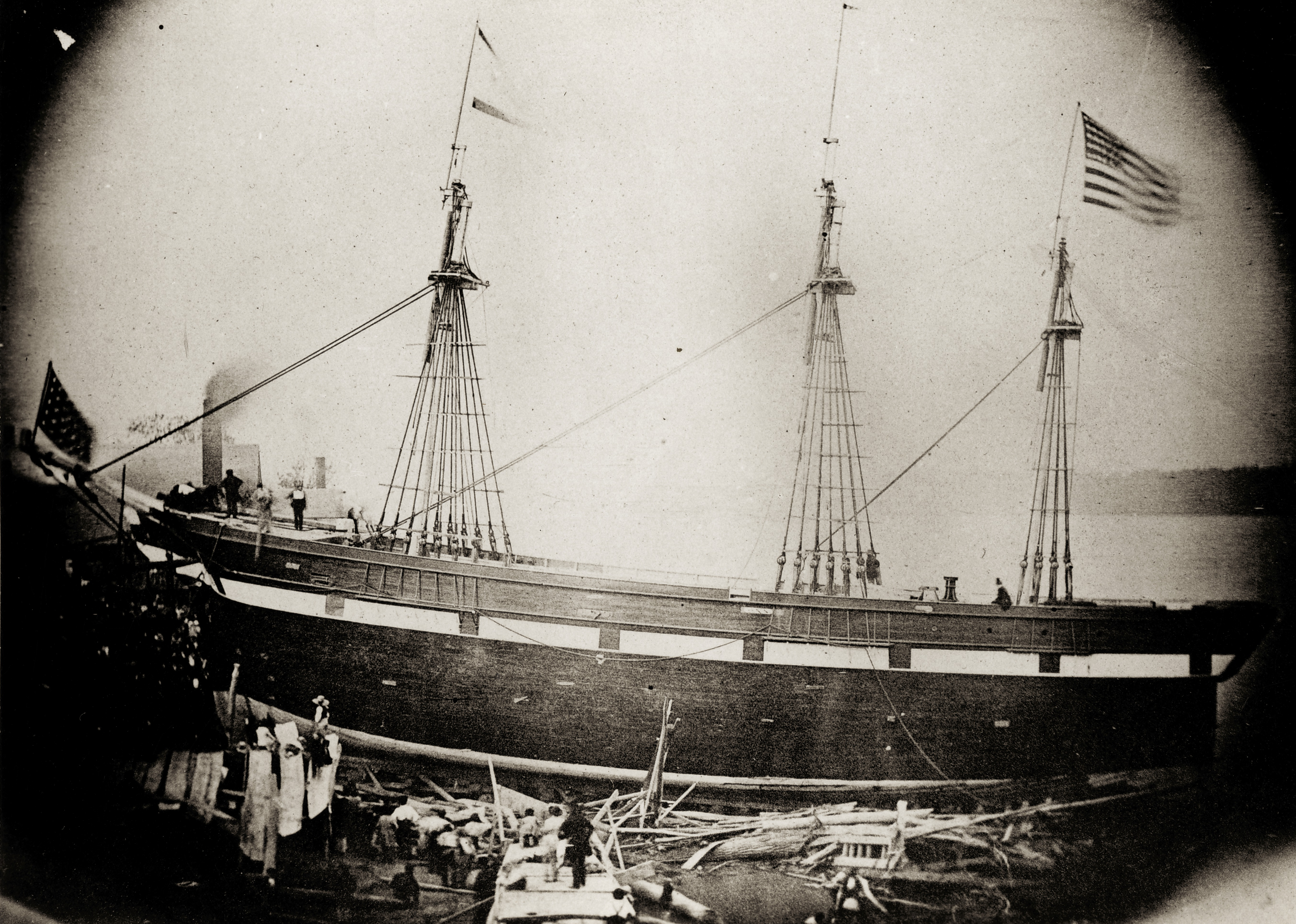 Title: Sailing Ship Matilda.